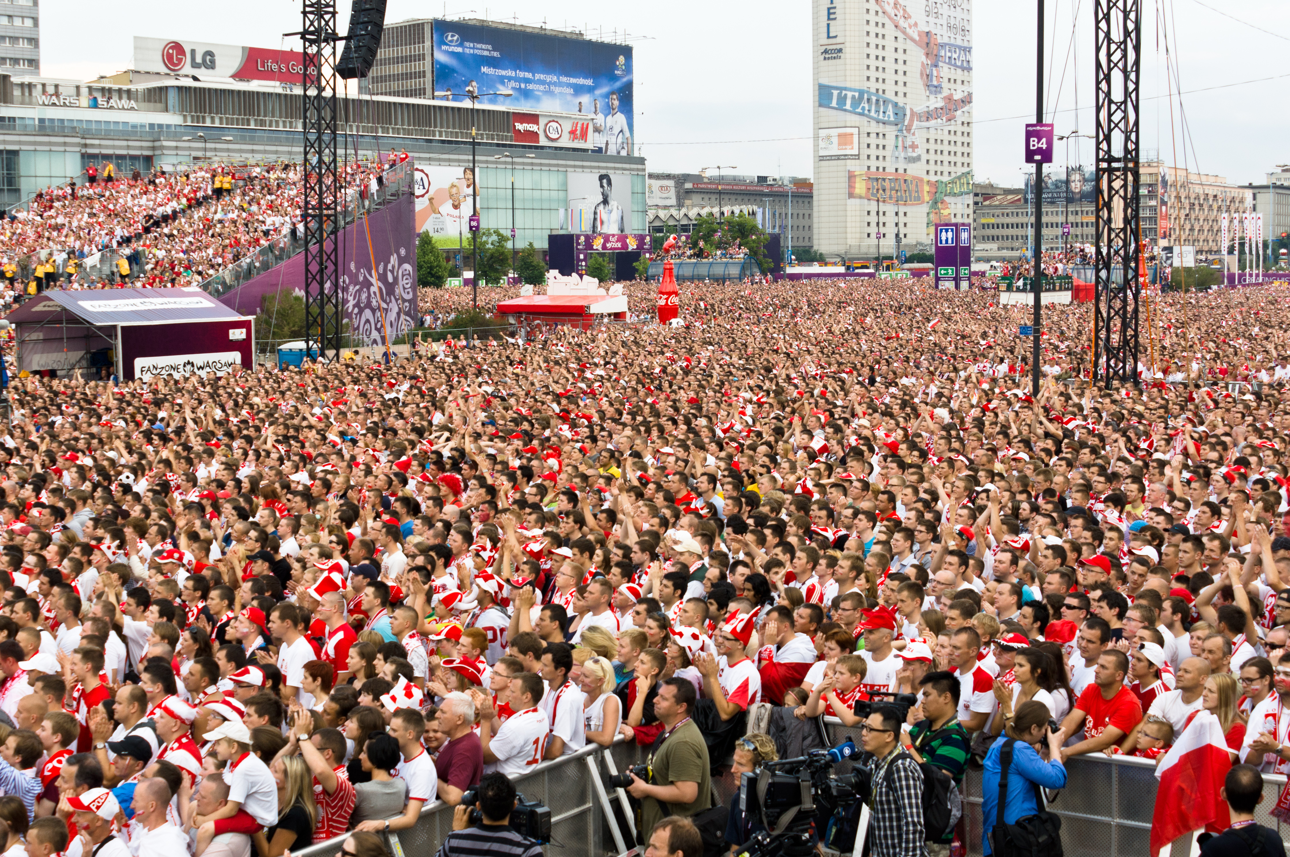 Polish football fans in Warsaw Fanzone, during Poland vs Greece match, UEFA Euro 2012.